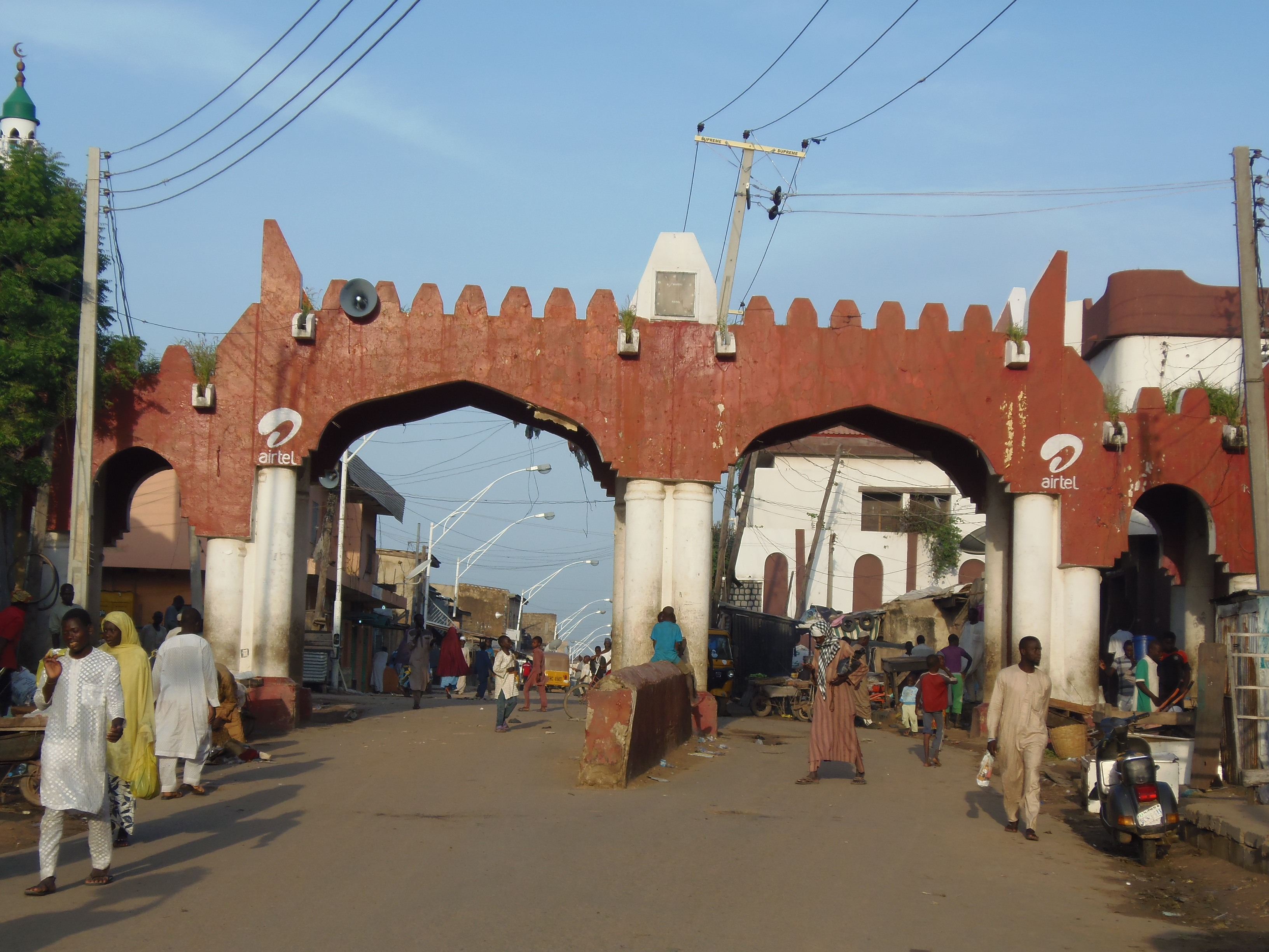 Ancient City Gate of Kano City which was rebuilt in 2014.